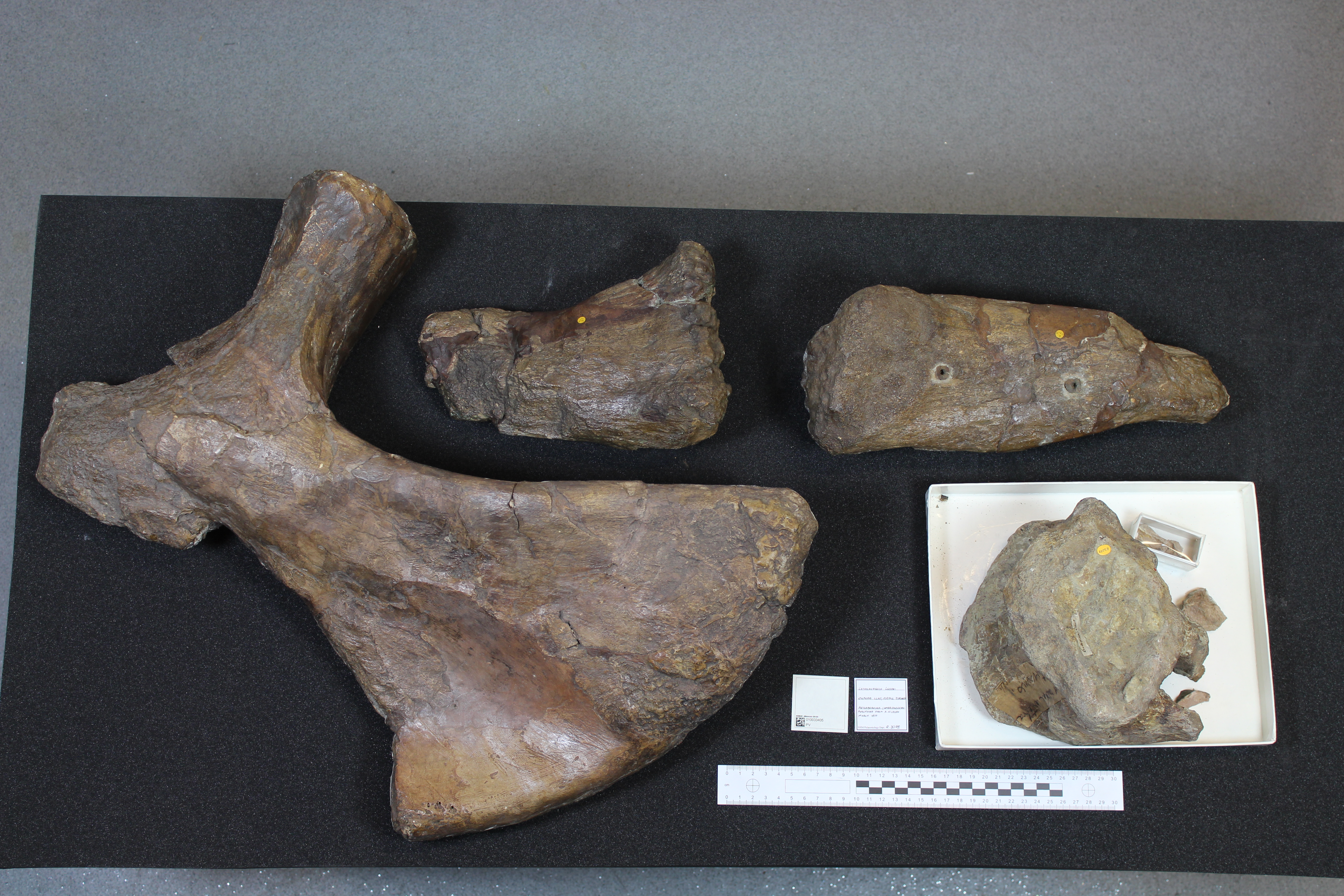 Cetiosaurus leedsi Woodward, 1905. Partial ilium, radius, ulna and caudal vertebra. With scale ruler